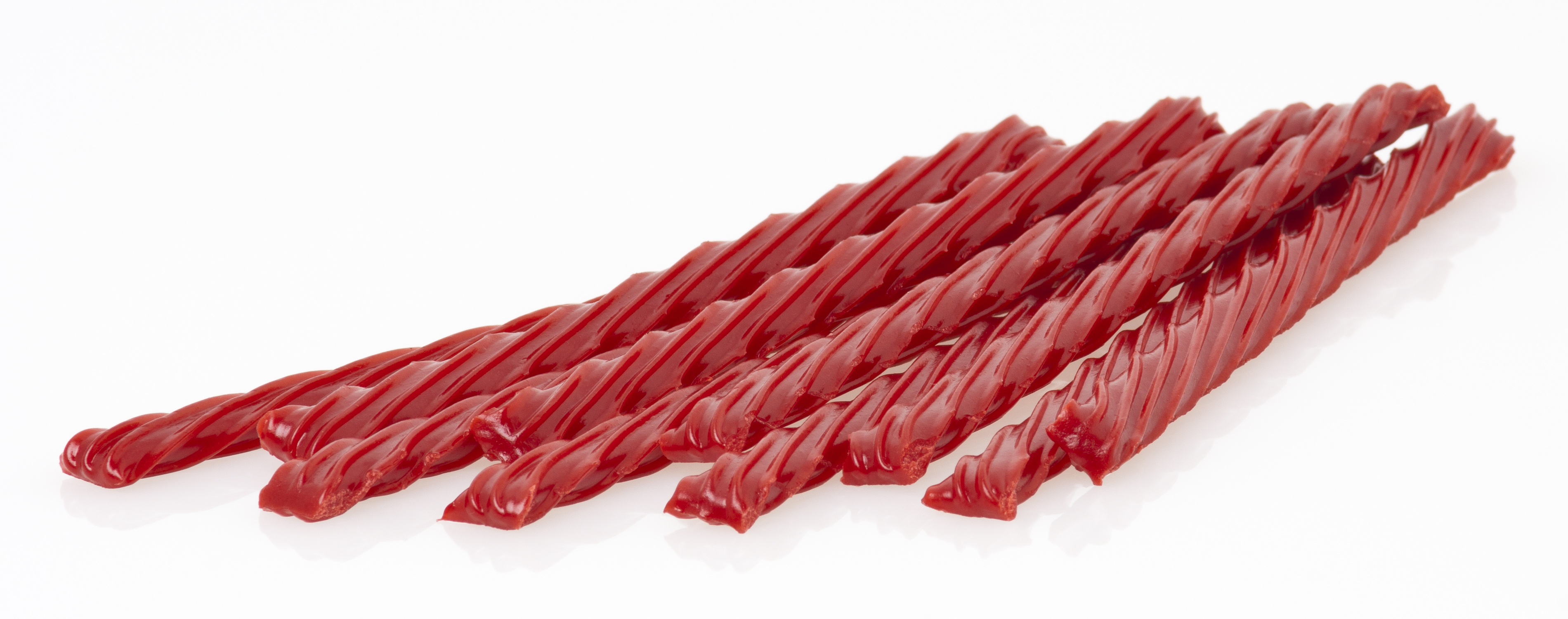 A pile of strawberry Twizzlers candy.